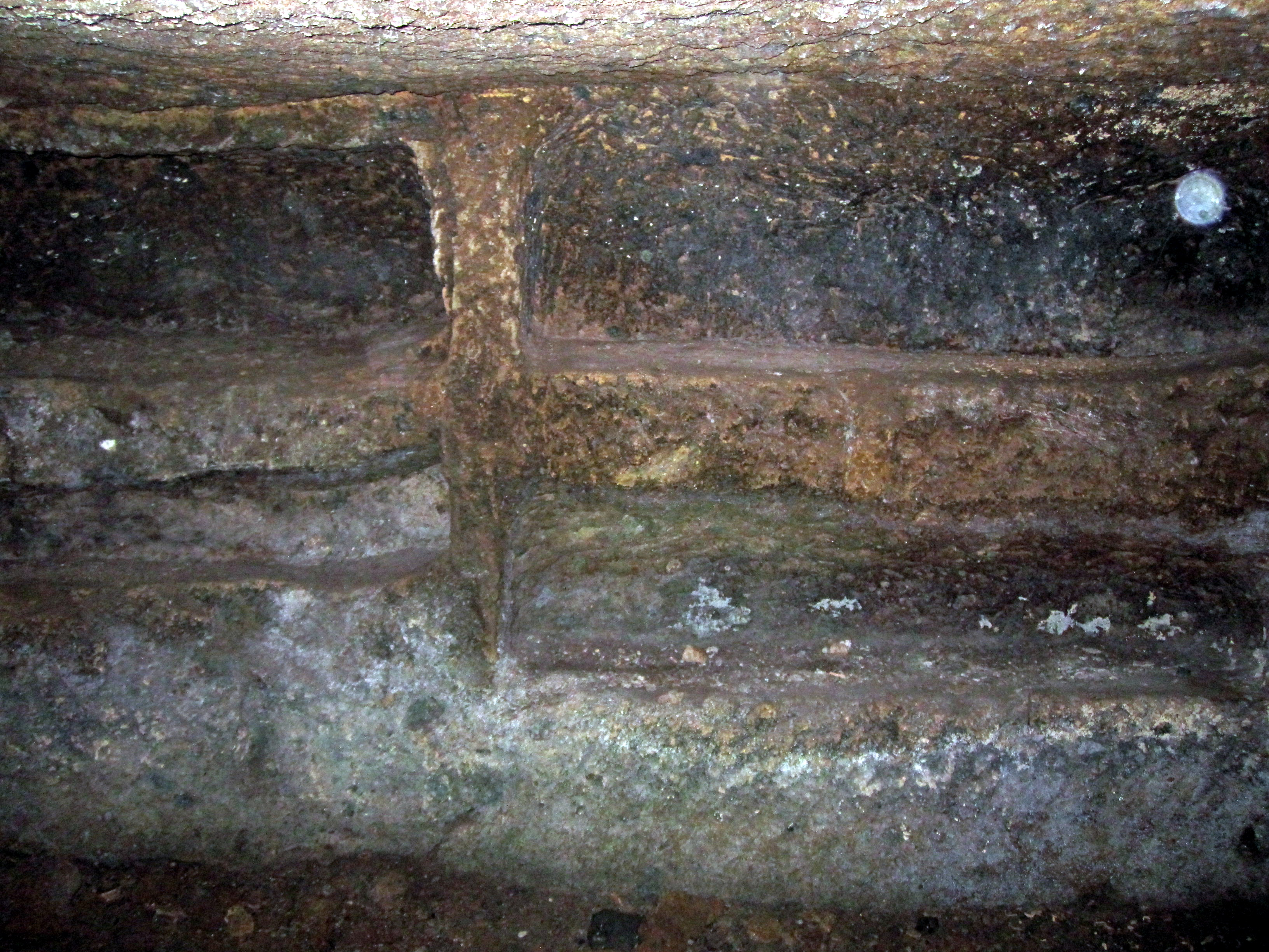 Vue de l'intérieur